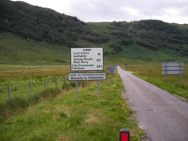 Welcome to Morvern Starting a trip through the peninsula of Morvern